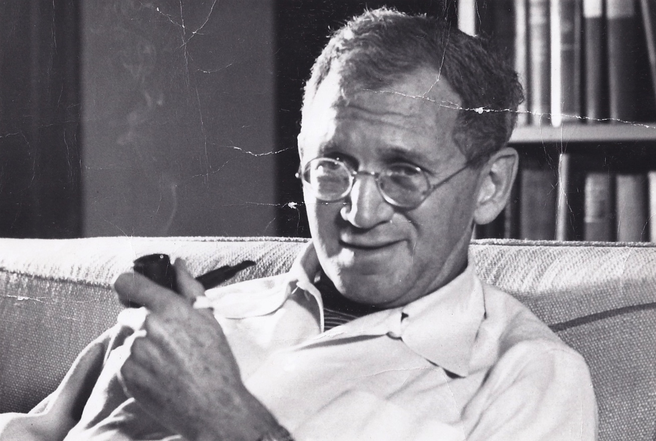 Photograph of Samson Raphaelson, taken by the subject himself